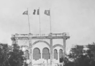 Saddex Calan, Mogadishu 1959: Calanka Soomaalida Calanka Itaalyaaniga Calanka United Nations Trusteeship